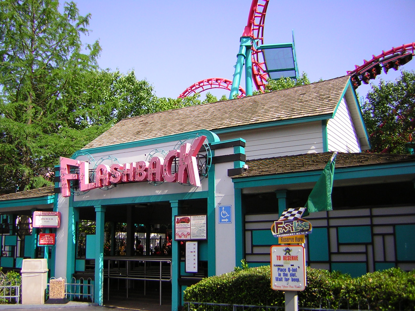 The obligatory Vekoma Boomerang.